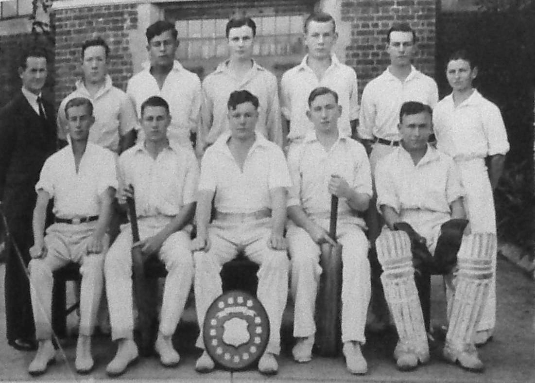 Melbourne High School cricket team. Keith Truscott is holding the shield. Keith Miller is at the back at far right.